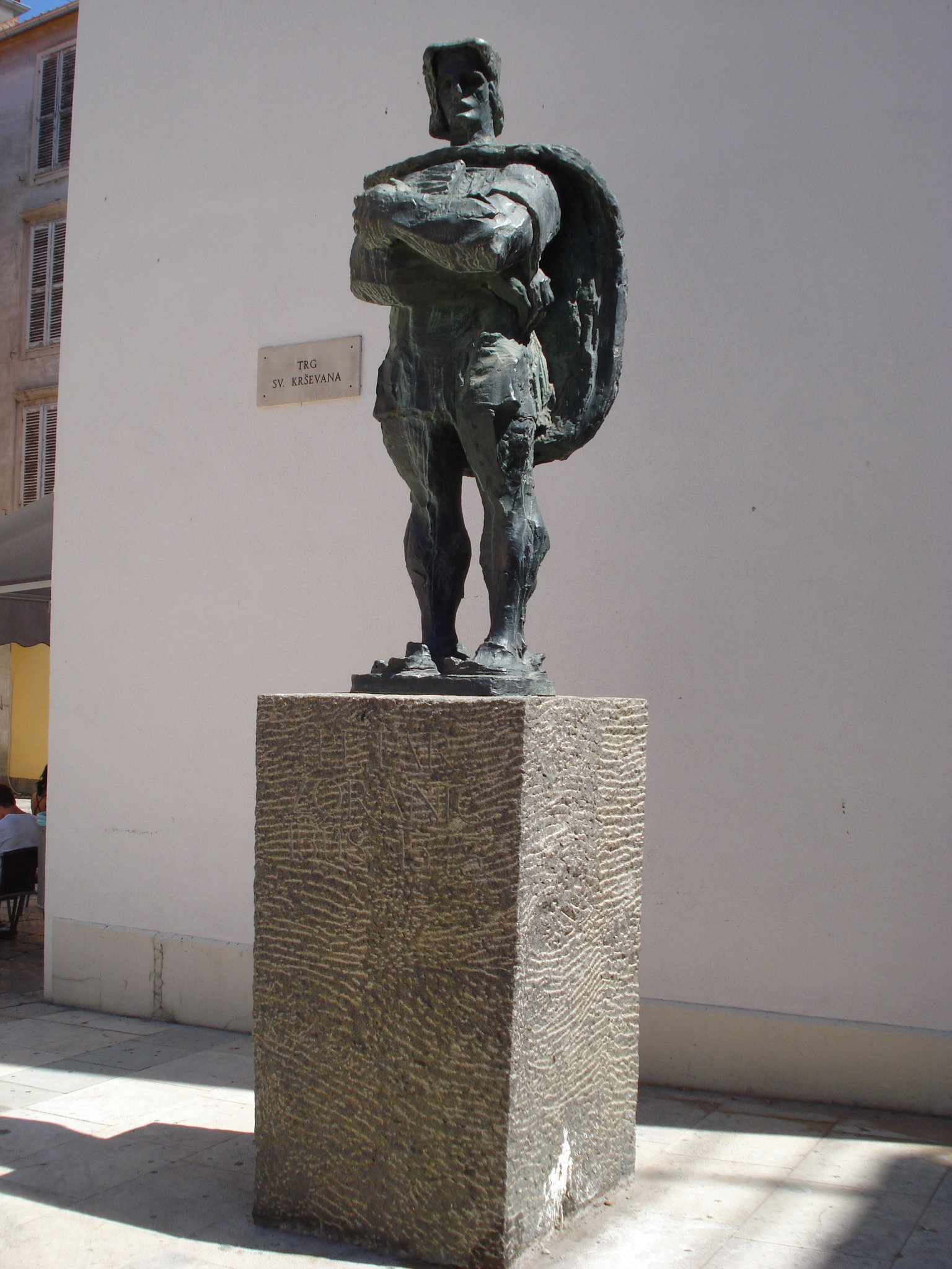 Petar Zoranić, Croatian writer (c.1508-1569) - statue in ZadarHrvatski: Petar Zoranić, hrvatski književnik (oko 1508-1569) - kip u Zadru